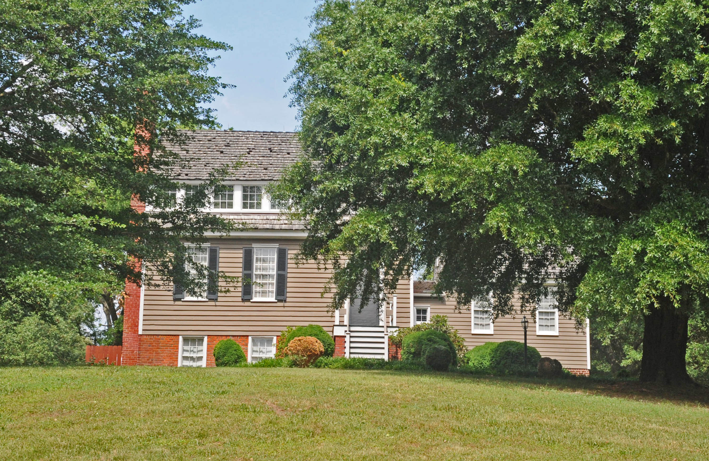 HOUSE BUILT AROUND 1820. THIS IS THE FRONT VIEW